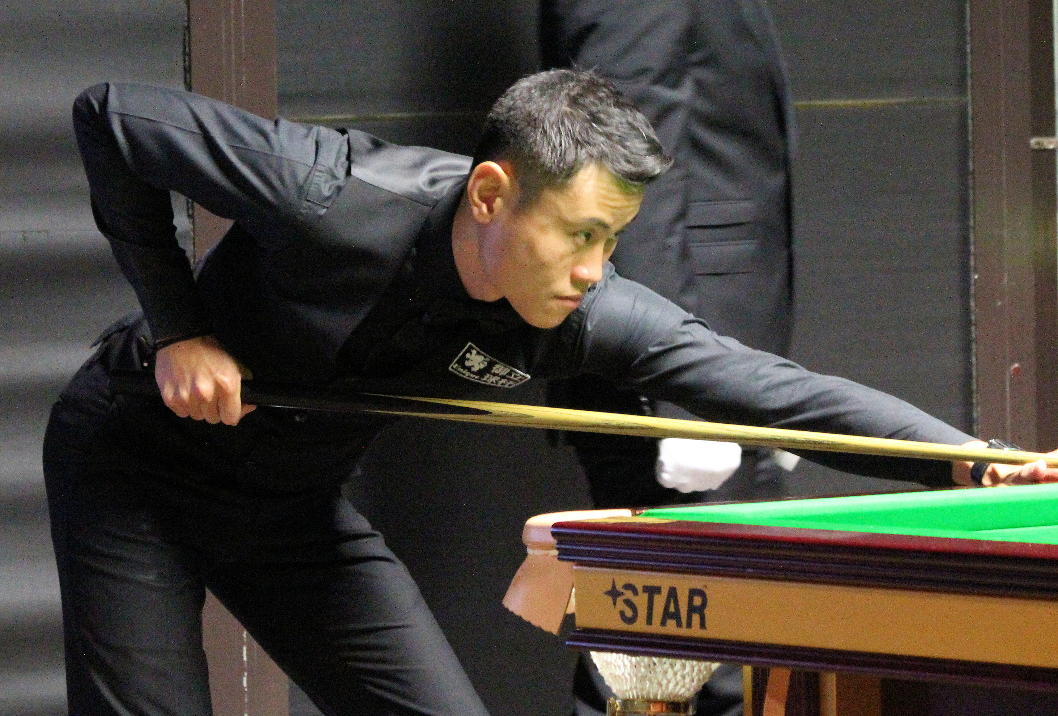 Andy Lee (Lee Chun Wai) at the Paul Hunter Classic 2018